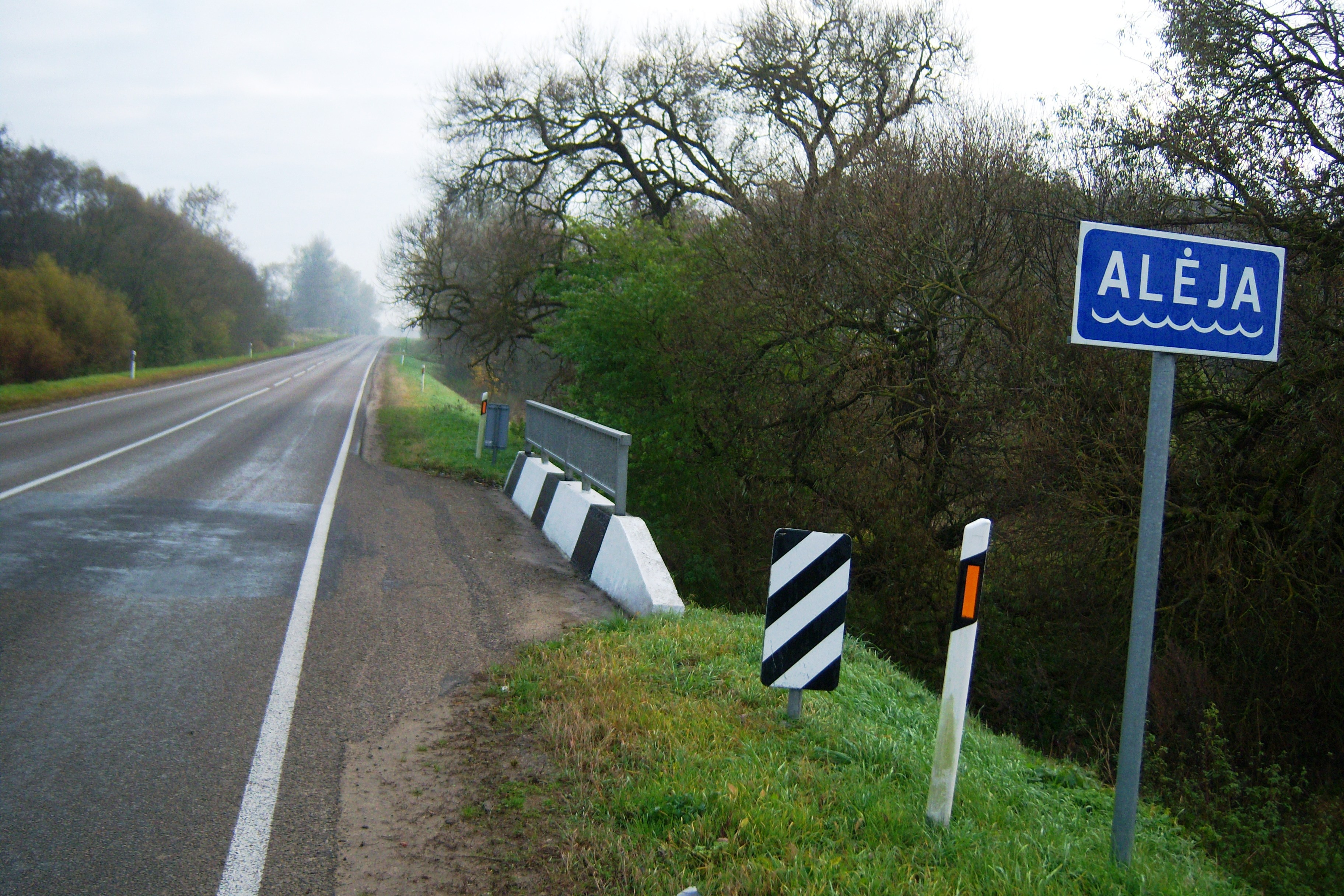 Alėja River in Raseiniai District, road KK196, Lithuania